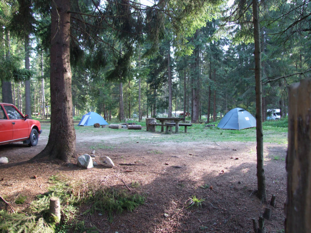 Auticamping Račkowa (West Tatra Mountains)